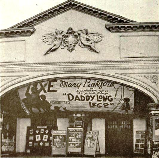 The film Daddy-Long-Legs (1919) being shown at the Liberty Theater in Electra, Texas, on page 1622 of the August 23, 1919 Motion Picture News.